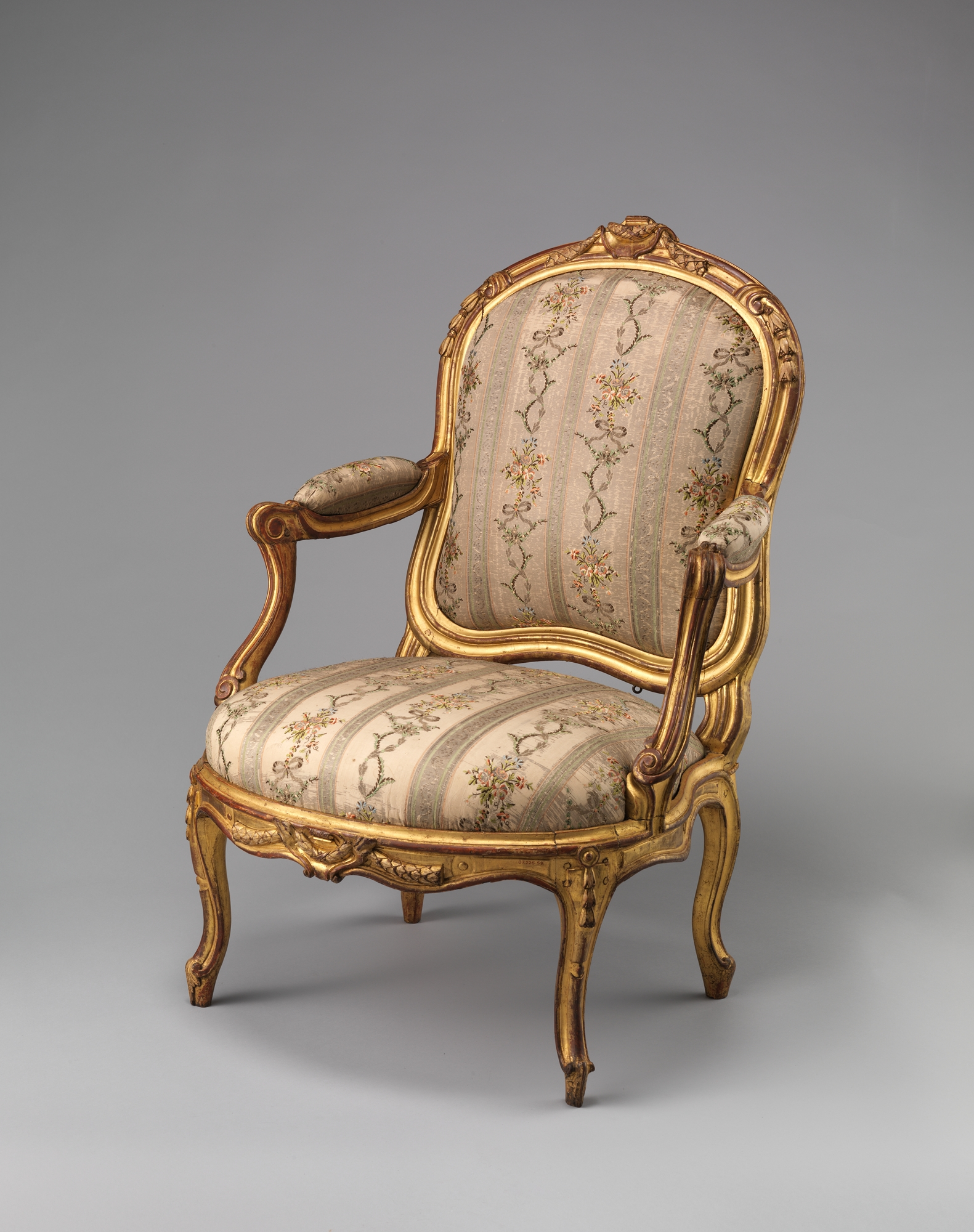 French, Paris; Armchair; Woodwork-Furniture